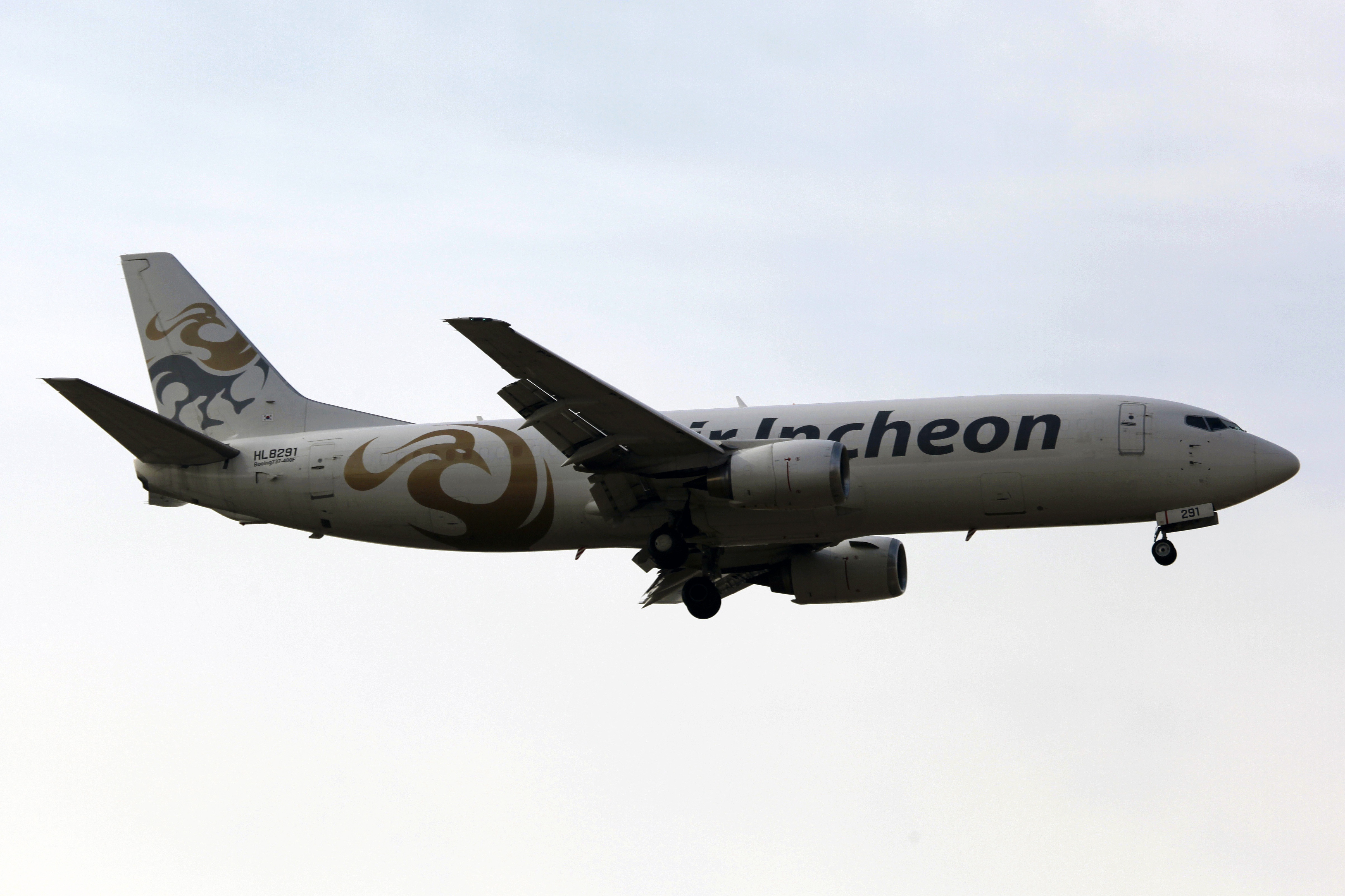 HL8291 | Air Incheon | Boeing 737-4Y0(SF) | Seoul Incheon International Airport [ICN]